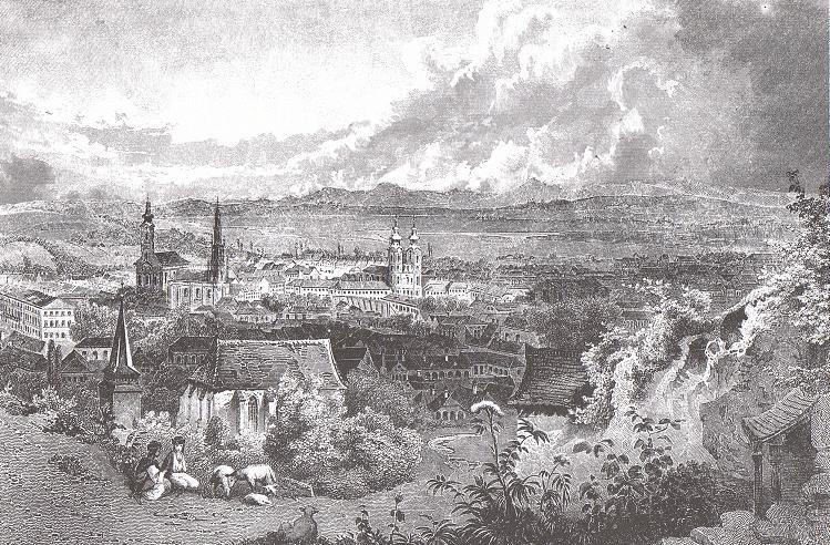 Miskolc (Hungary) 1840